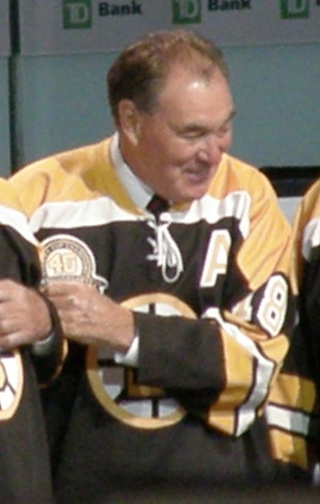 1970 Bruins Alumni: 18 Ed Westfall Pittsburgh Penguins at (vs) Boston Bruins, TD Banknorth Garden (Boston Garden), March 18, 2010